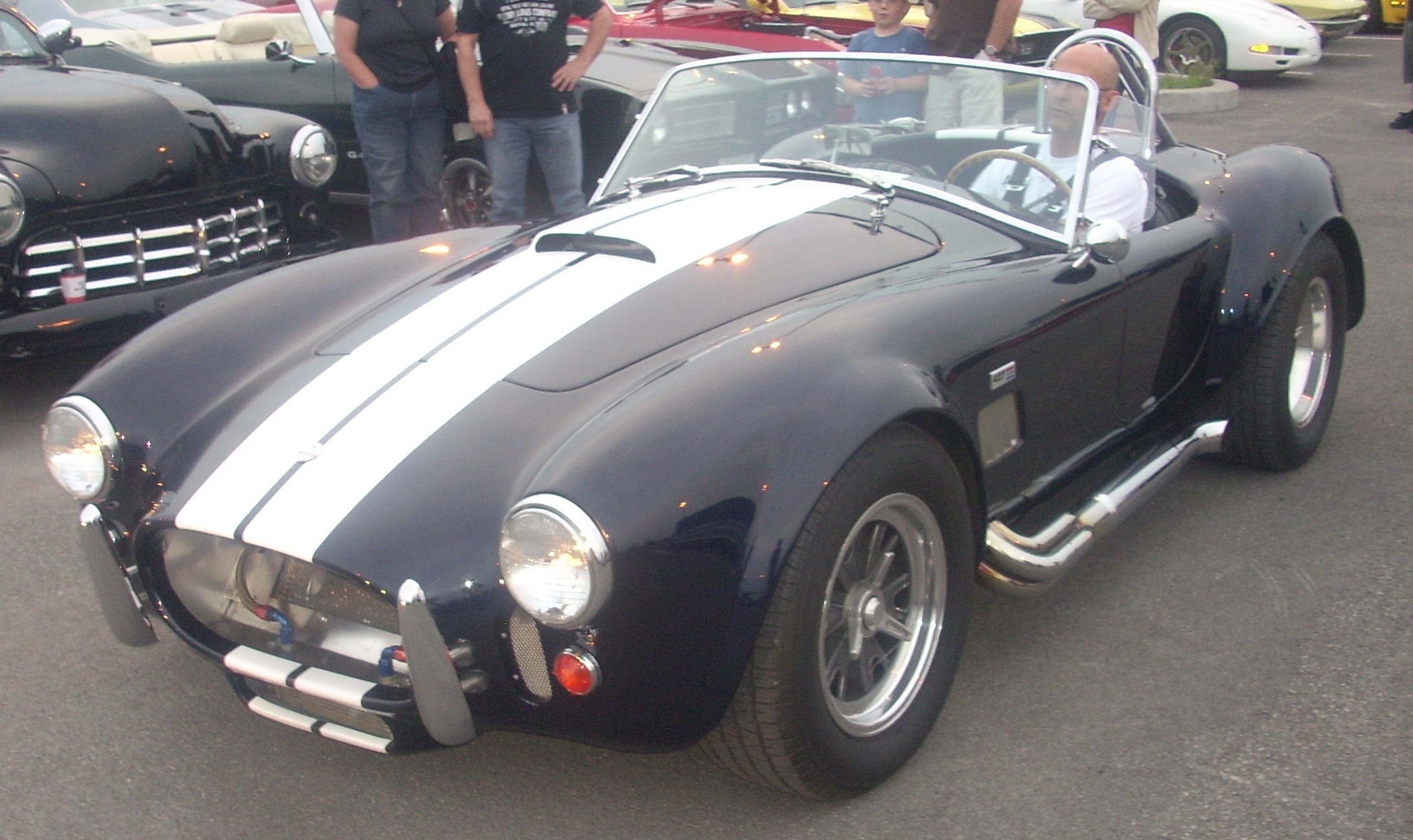 AC Cobra photographed in Laval, Quebec, Canada at Centropolis Laval.